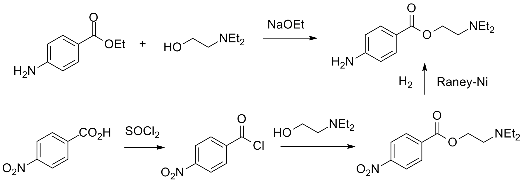 A synthetic scheme for the production of procaine.